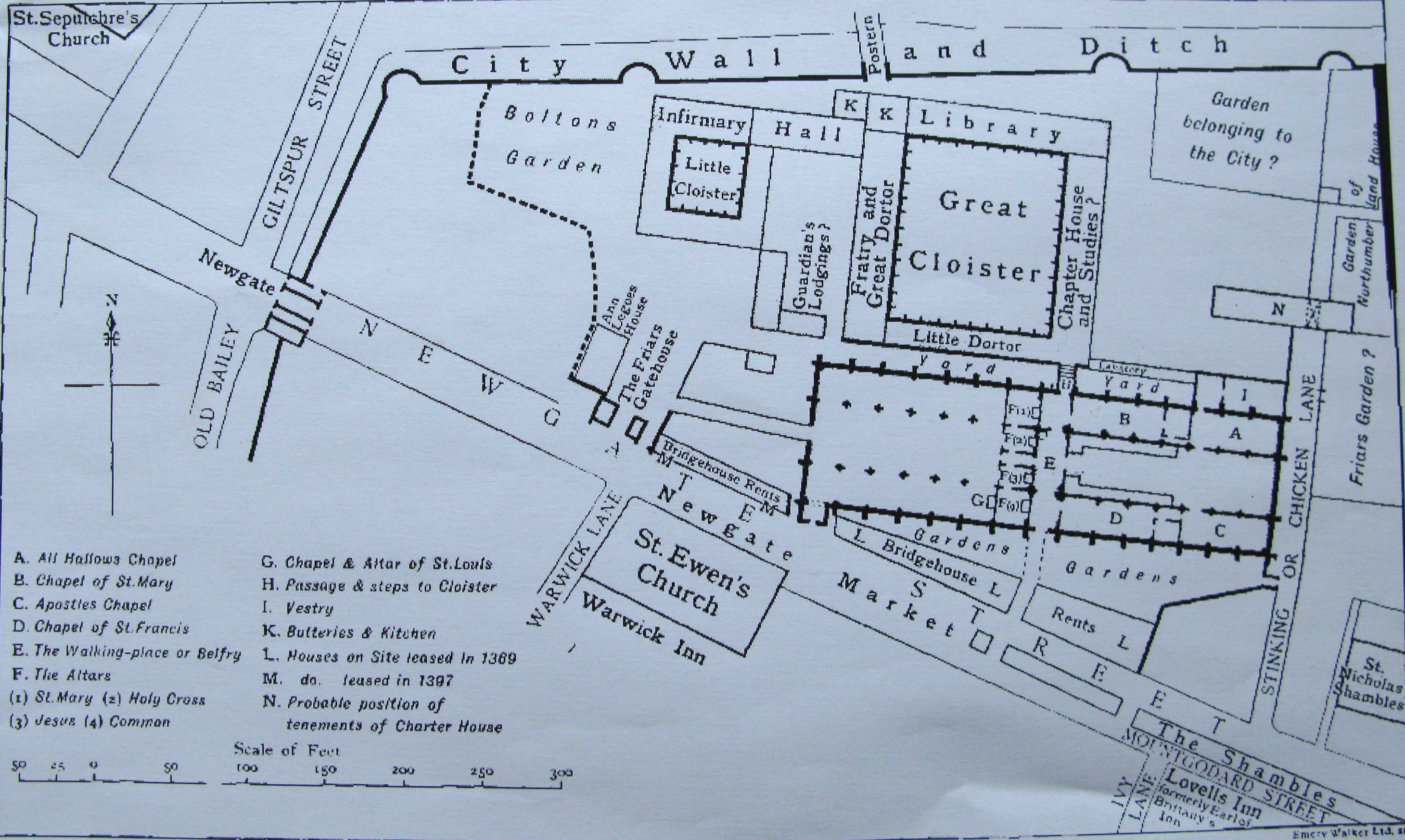 Site plan of Grey friars, early 16th century